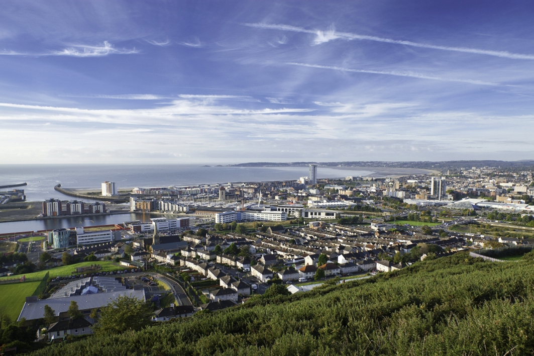 Swansea logo